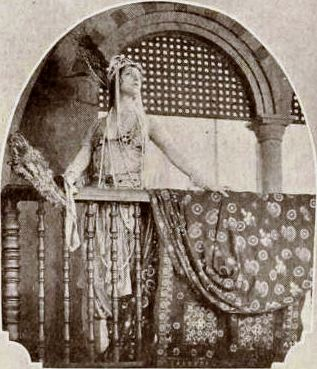 Still from the American drama film Barbary Sheep (1917) with Elsie Ferguson, on page 20 of the September 8, 1917 Exhibitors Herald.